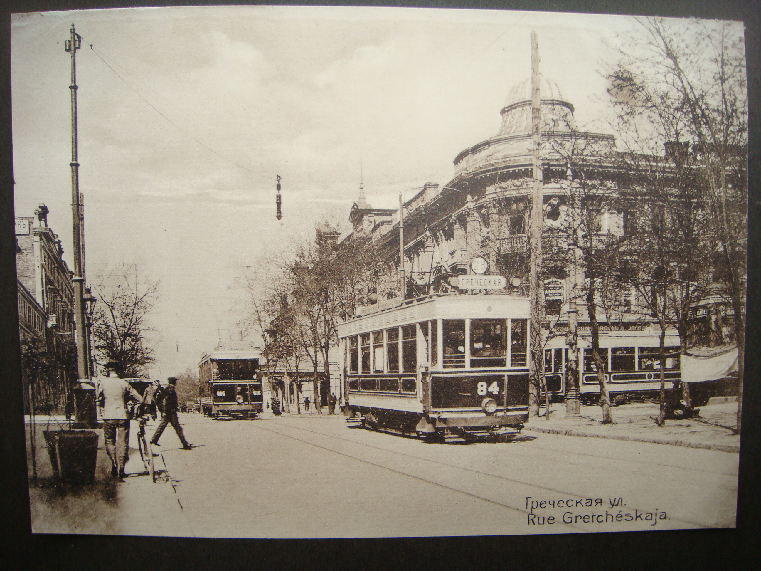 This is photo view of Odessa from Souvenir Photo Album published in Odessa circa early XX century.